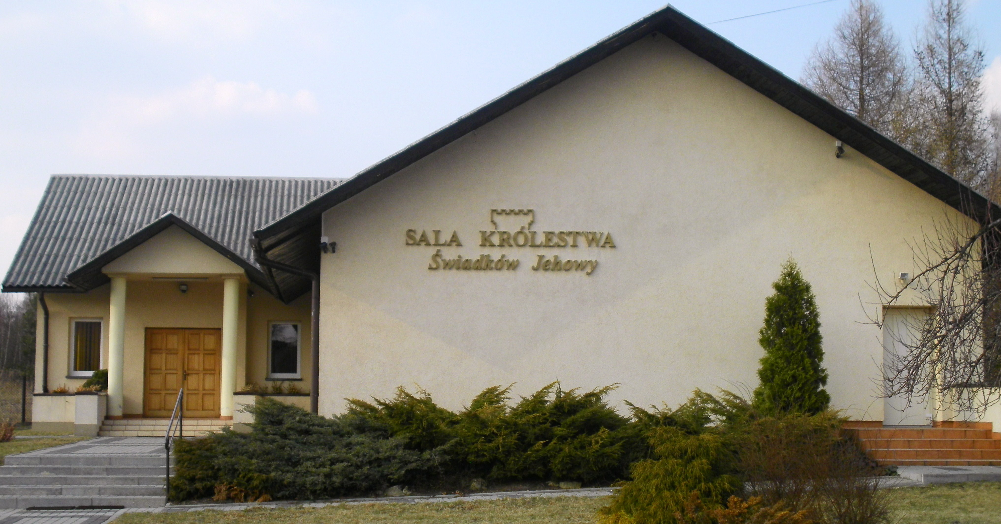 Kingdom Hall Trzebinia-Siersza